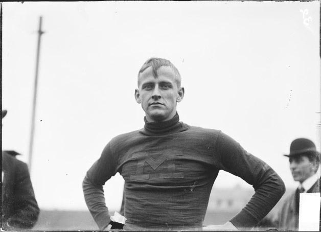 Charles Dvorak, winner in pole vault at the 1904 Olympic Games photography, reproduction, no restrictions on use